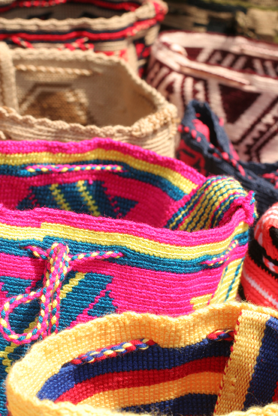 Mochila handcrafted by the Wayuu people